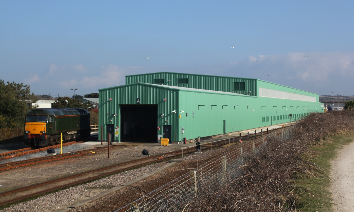 Long Rock depot at Penzance was rebuilt and enlarged in 2017 so that it could take on the maintenance of Great Western Railway's class 57 locomotives which were transferred from Old Oak Common in London. Heritage-liveried 57604 Pendennis Castle sits in the winter sunshine outside its new home.